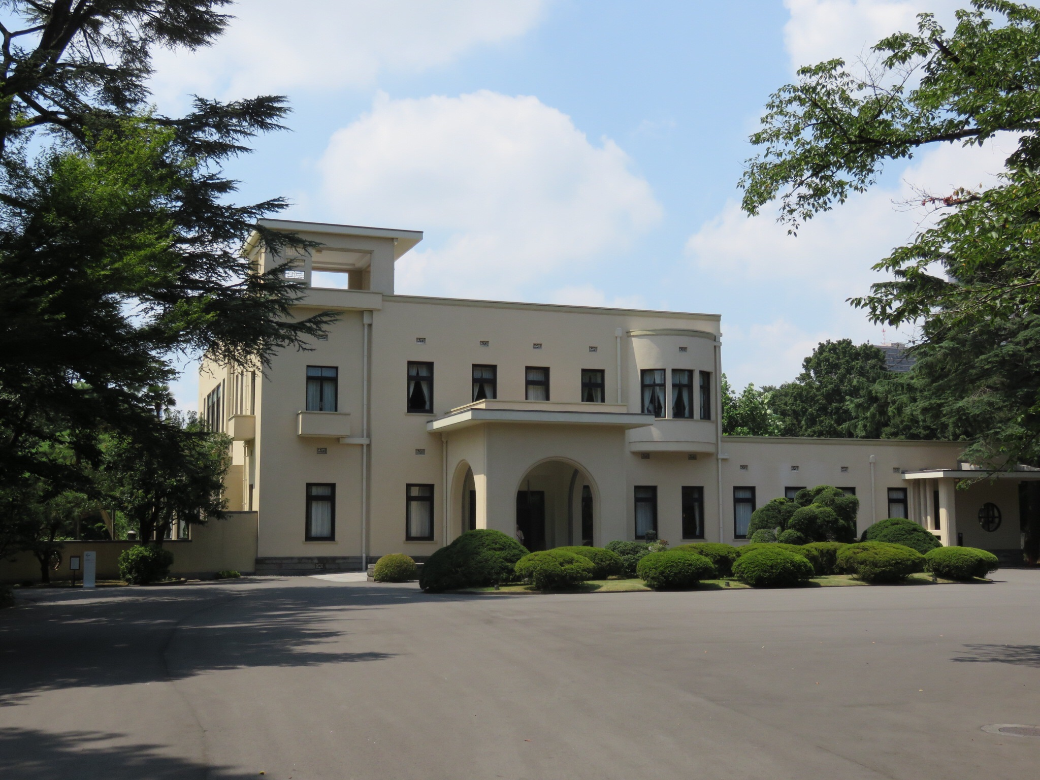 Teien Museum Entrance